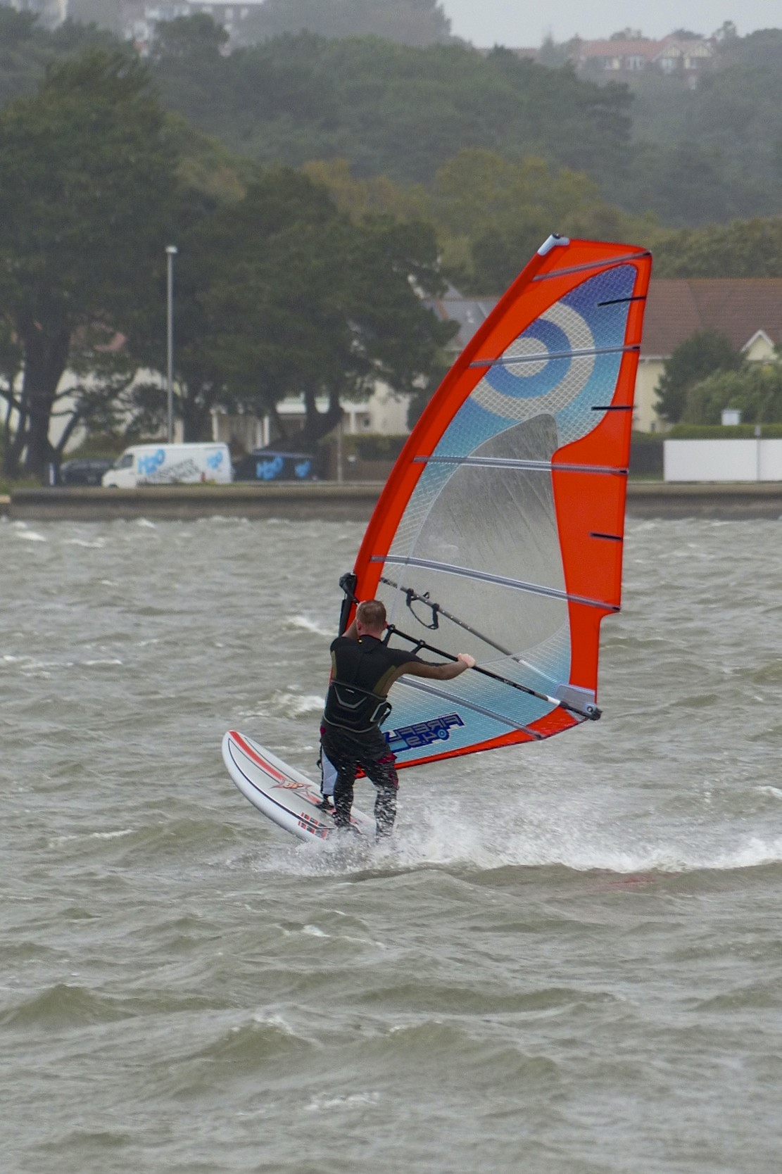 Whitely Lake, Sandbanks, Poole.